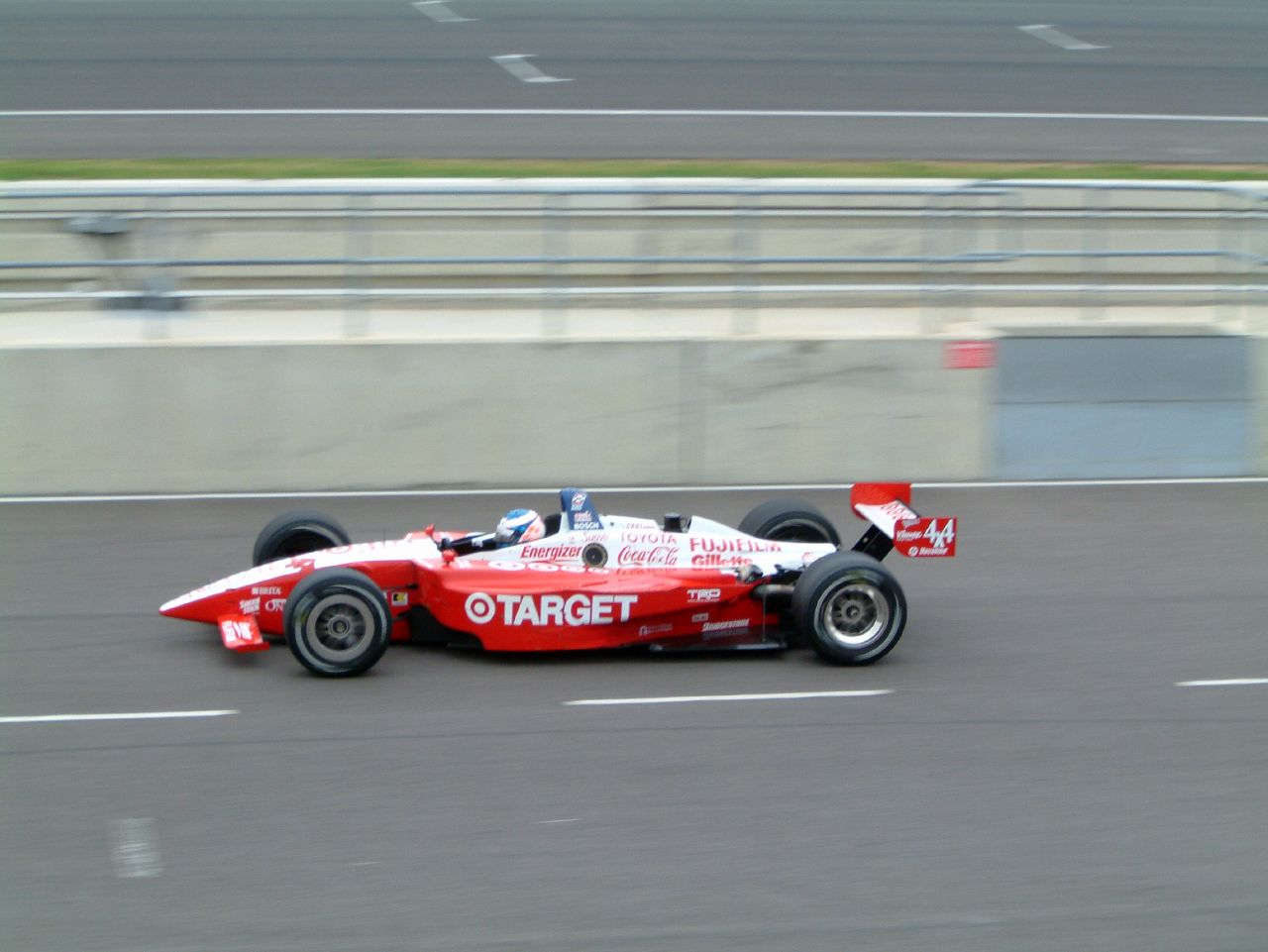 Scott Dixon driving for Chip Ganassi Racing at the 2002 Sure For Men Rockingham 500